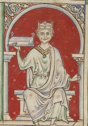 William II with the Westminster Hall (British Library, Royal 14 C VII f. 8v)